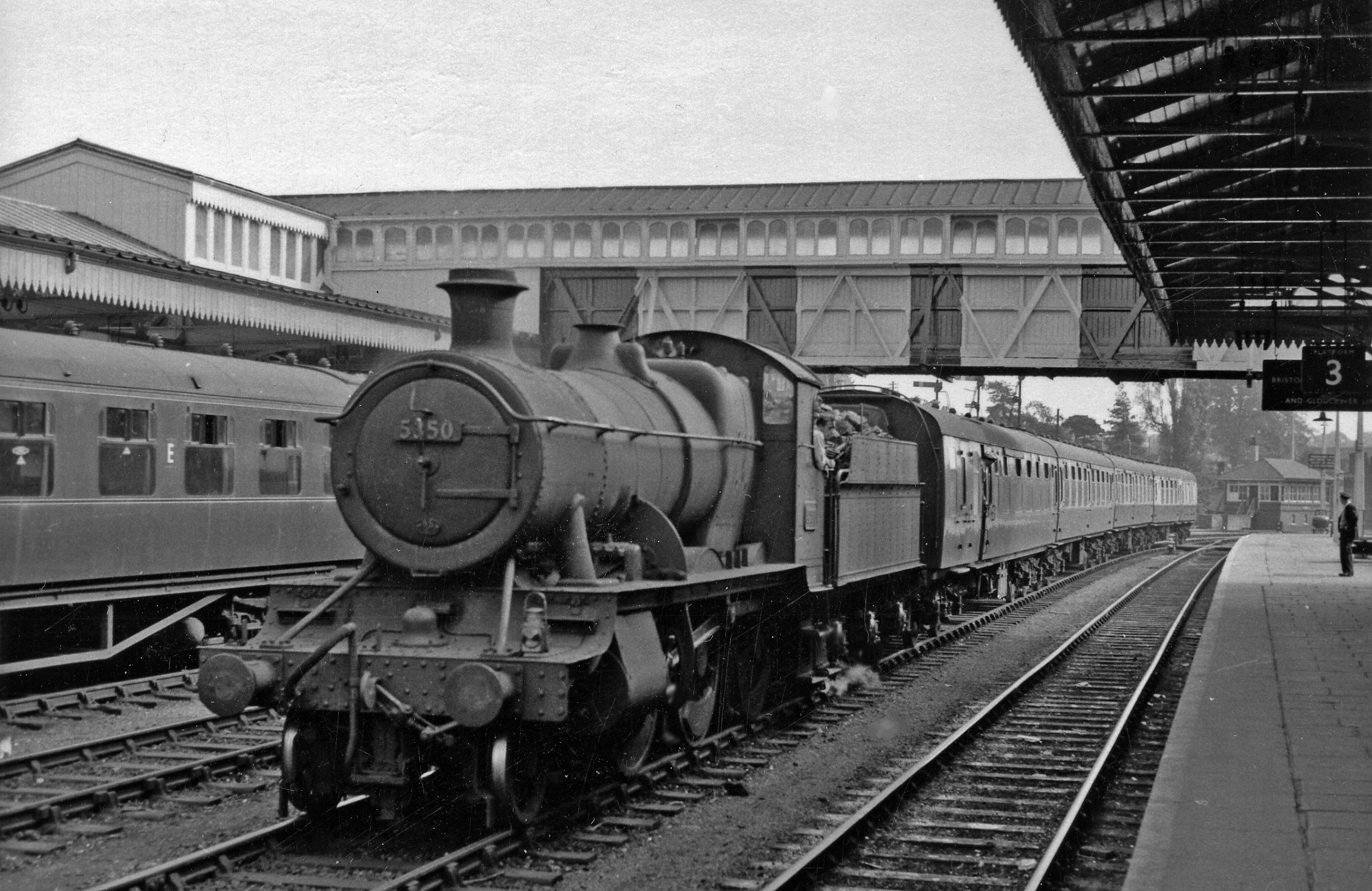 Hereford Station, with 2-6-0 on pilot duty. View southward, towards Newport etc.; ex-GW & LNW Joint Shrewsbury - Hereford - Abergavenny - Newport main line, ex-GW main line from Worcester and Birmingham, also branch from Gloucester via Ross-on-Wye (closed 11/64) and ex-Midland line to Hay and Brecon (closed 12/62). The pilot on the Up centre road with coaches is Churchward 43XX 2-6-0 No. 5350 (built 7/18, withdrawn 12/59).